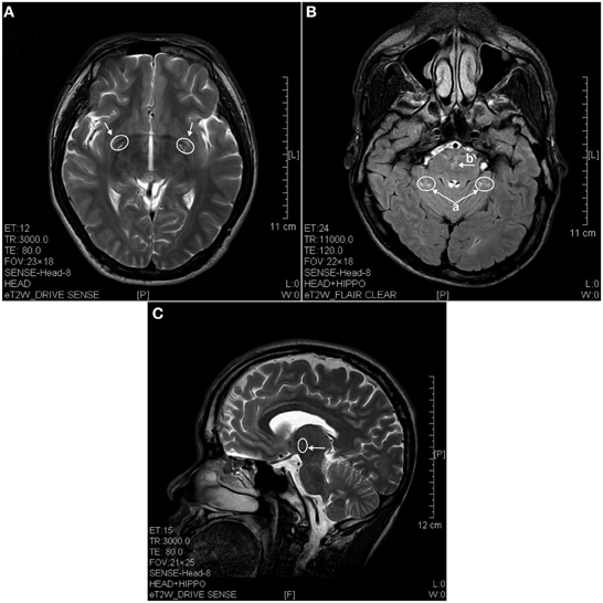 MRI images of the brains of a 4 years ketamine addicts. (A) T2 image of a horizontal brain section showing degenerative hyperintense spots in basal forebrain (arrow). (B) T2 image of a horizontal section showing hyperintense degeneration in cerebellum (a) and in pons (b). (C) T2 image of a sagittal section showing degeneration spots in diencephalon (thalamus).